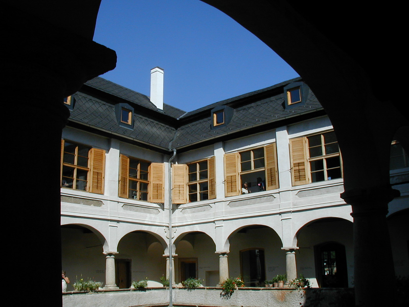 Třebešice (château_KH) F. Courtyard, Kutná Hora District, the Czech Republic.